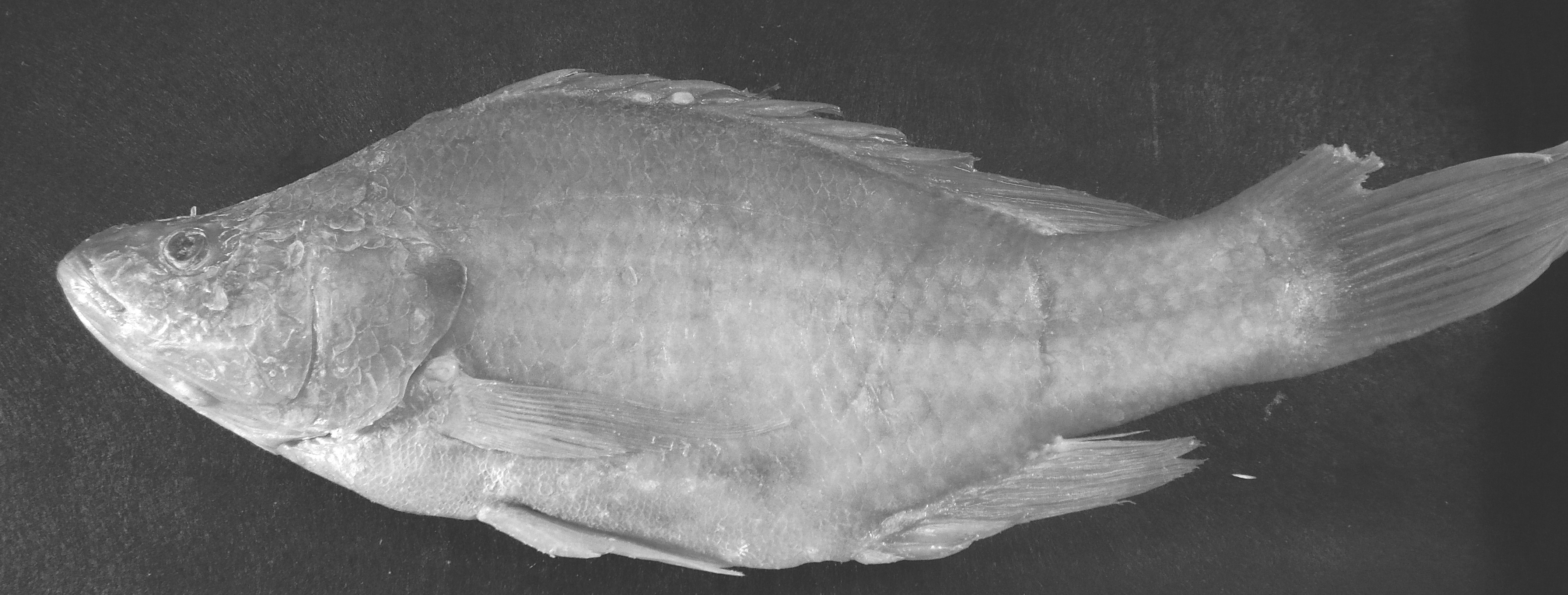 Large female specimen of Oreochromis amphimelas (265mmSL) from Lake Kitangiri, from the Natural History Museum collection in London.